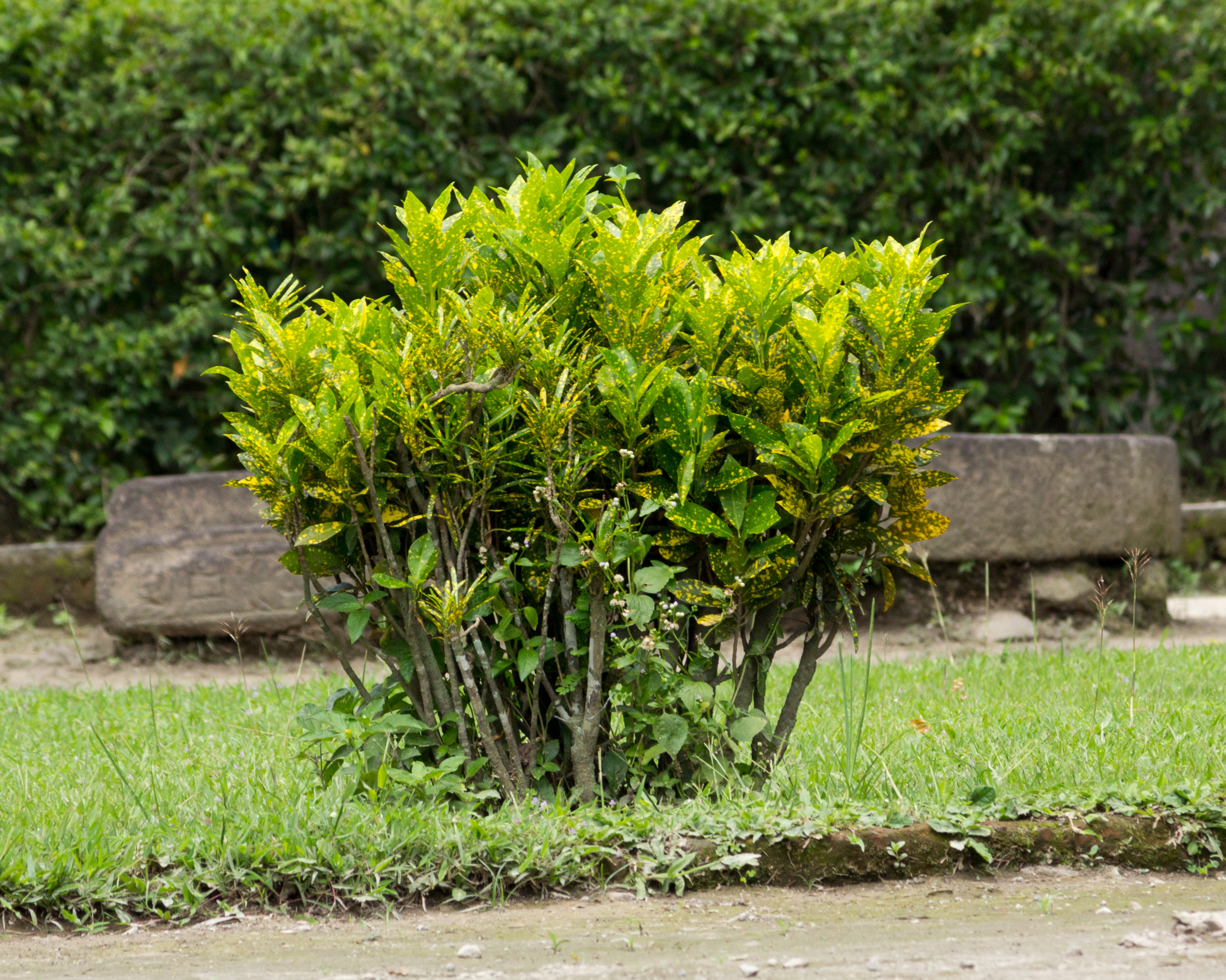 Unidentified Plant, Sari Temple, 2014-04-10